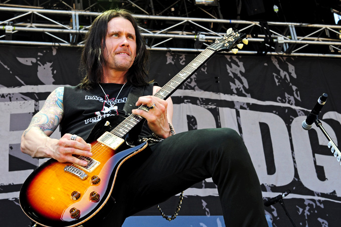 Soundwave Festival 2012